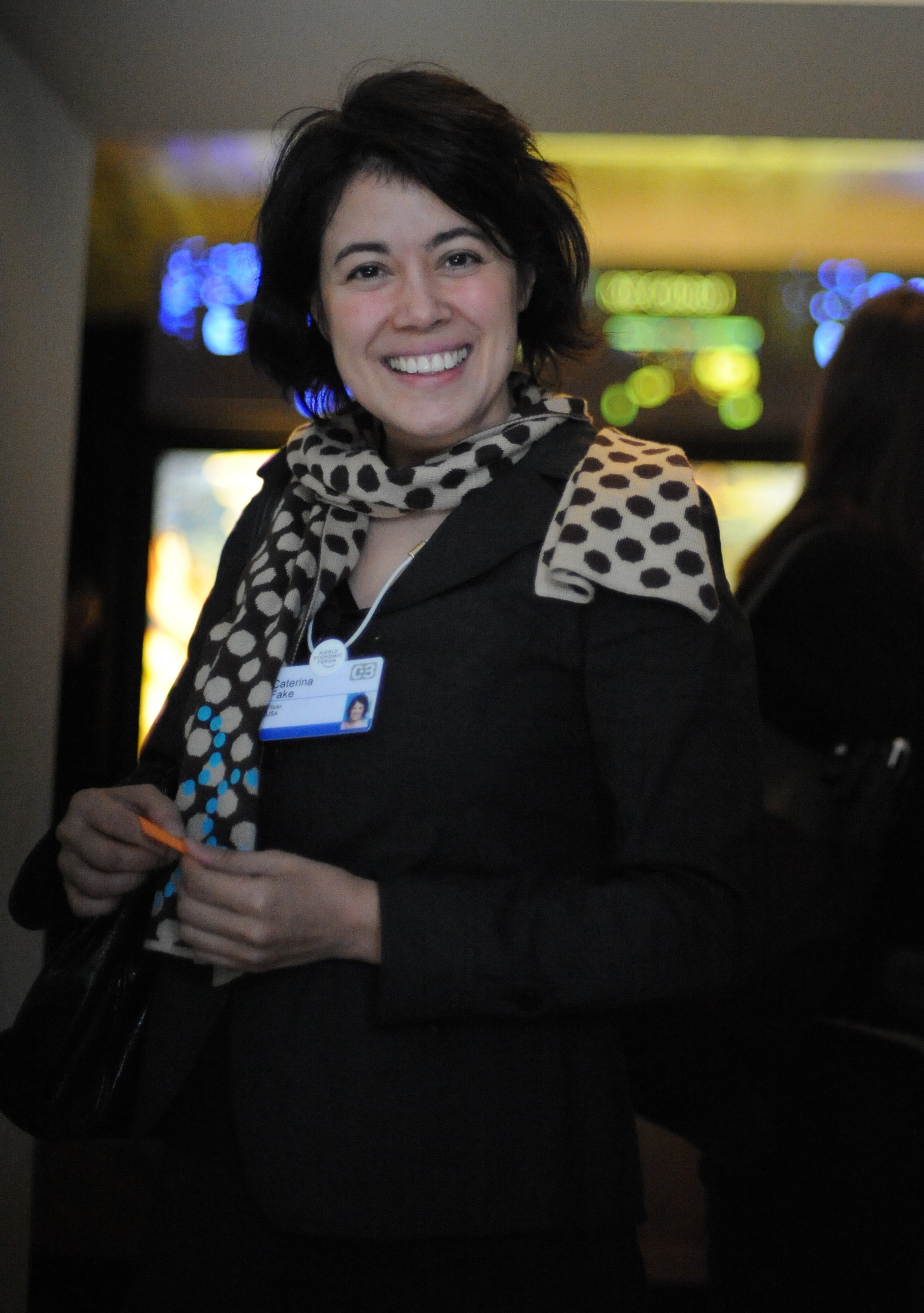 American technology entrepreneur Caterina Fake, co-founder of Flickr.